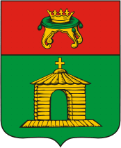 Kalyazin (Tver oblast), coat of arms (1780)